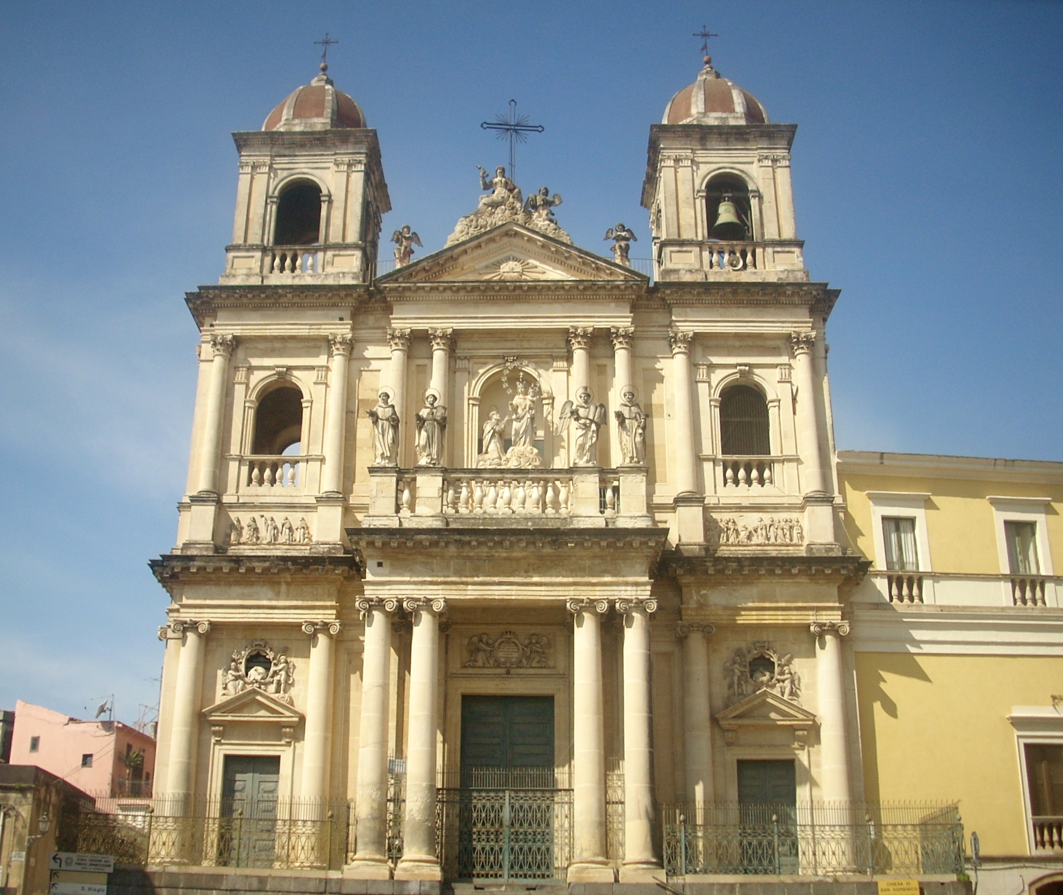 San Domenico Church, piazza San Domeinico, Acireale, Sicily. Built between the 16th and 18th centuries in the neoclassical style.